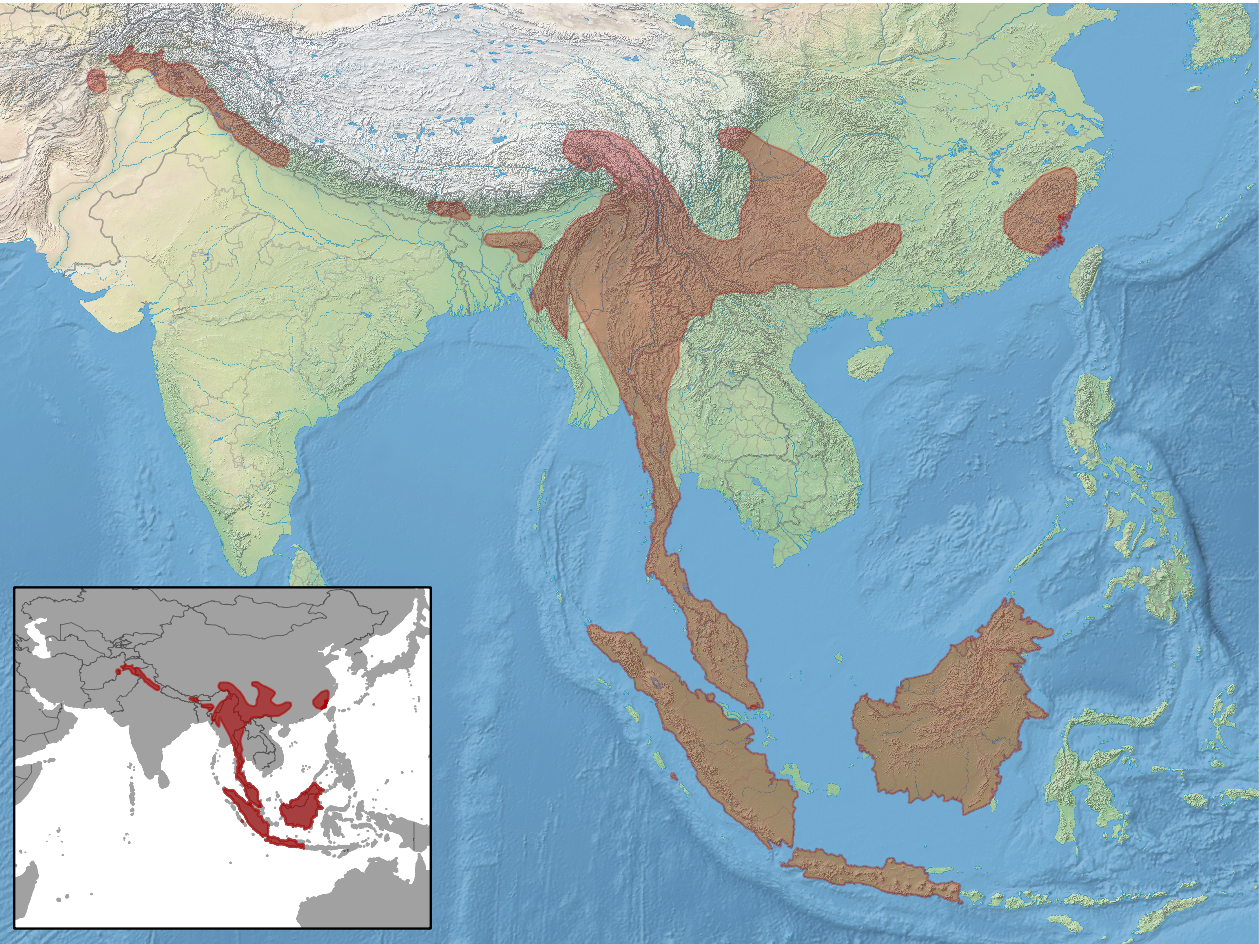 geographic distribution of Petaurista petaurista